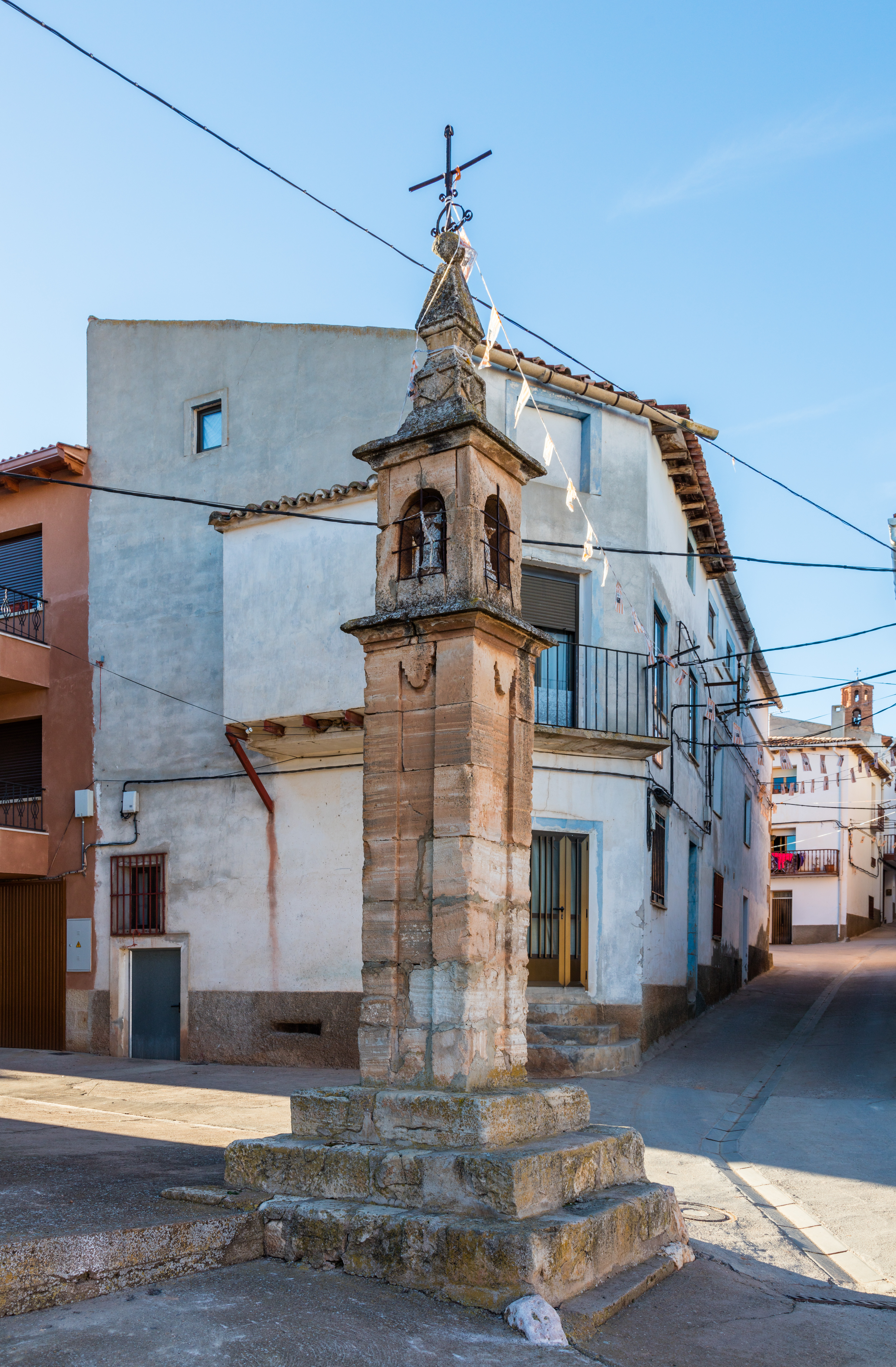 Wayside cross, Campillo de Aragón, Zaragoza, Spain